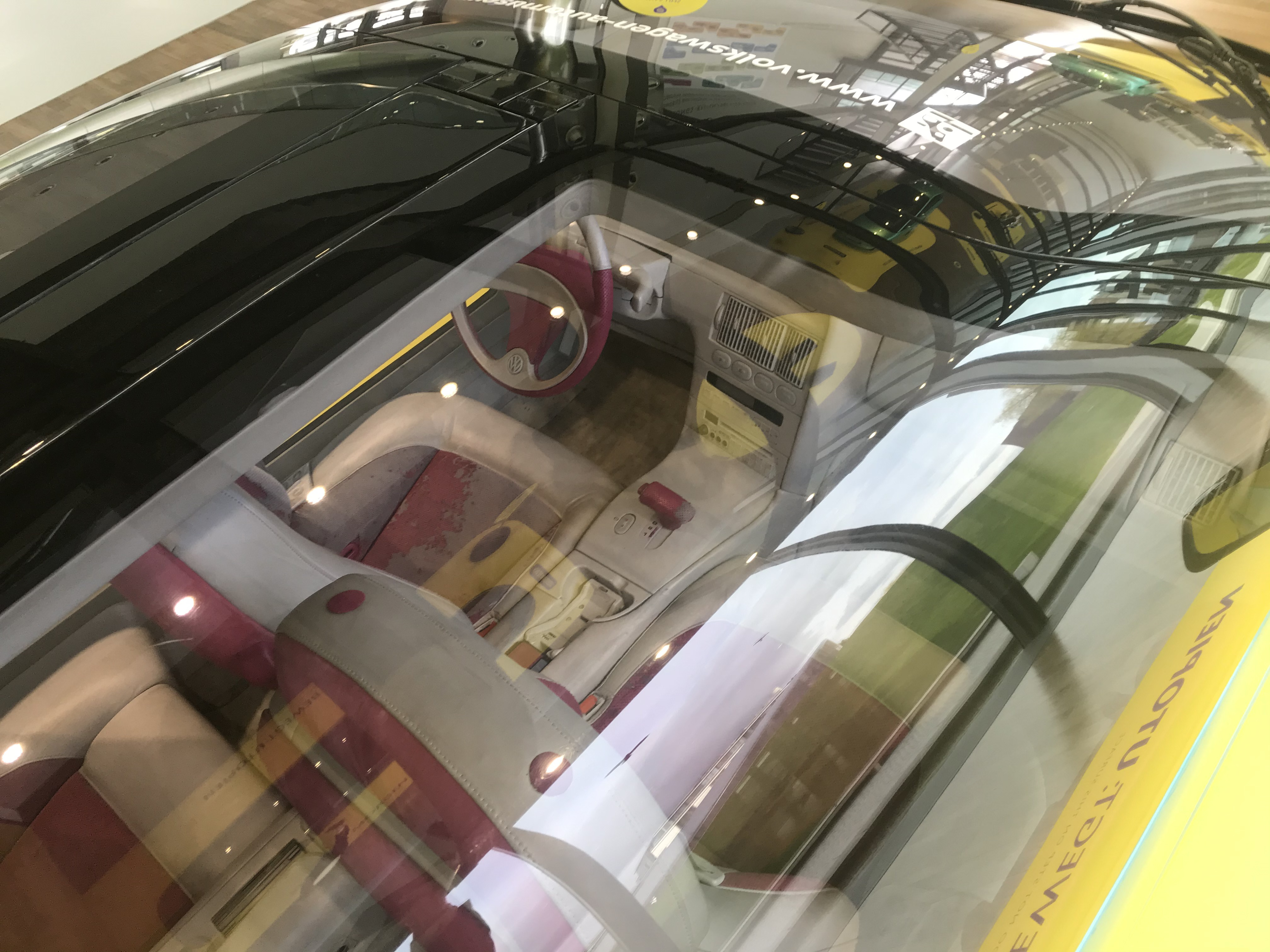 Interior of Volkswagen Futura